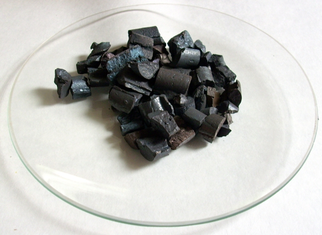 Iron(II) sulfide FeS